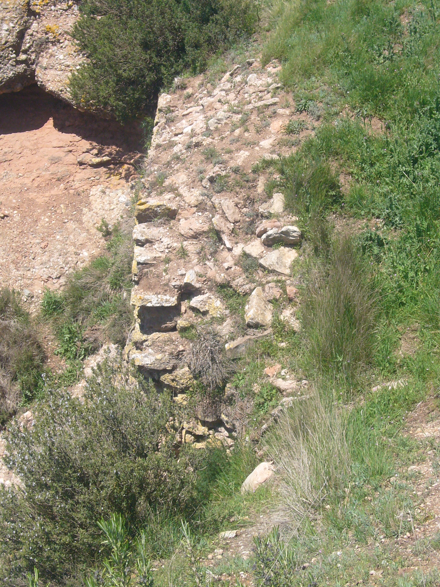 Mur del Castell de la Guàrdia de Montserrat, vist des de la part superior